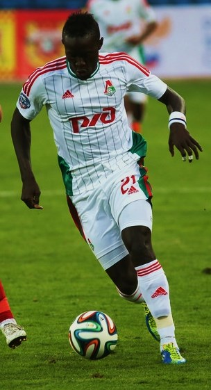 Oumar Niasse 2014